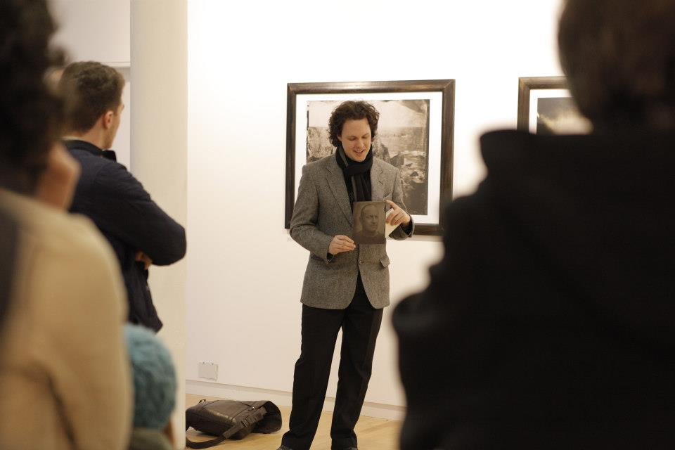 Photographer Alex Boyd speaking at an exhibition with his work at Street Level Photoworks, Glasgow, 2013.